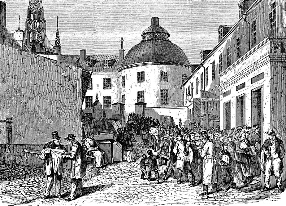 Riddarholmen, Stockholm.